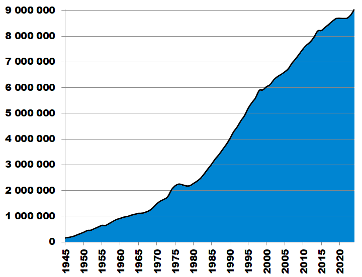 Peak publishers of Jehovah's Witnesses since 1945